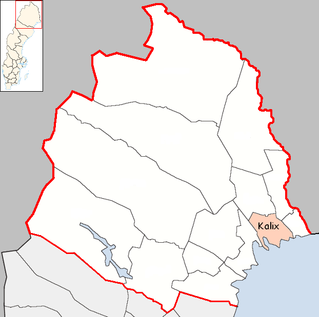 Kalix Municipality in Norrbotten County Designed by me. Mere outlines are a PD source from